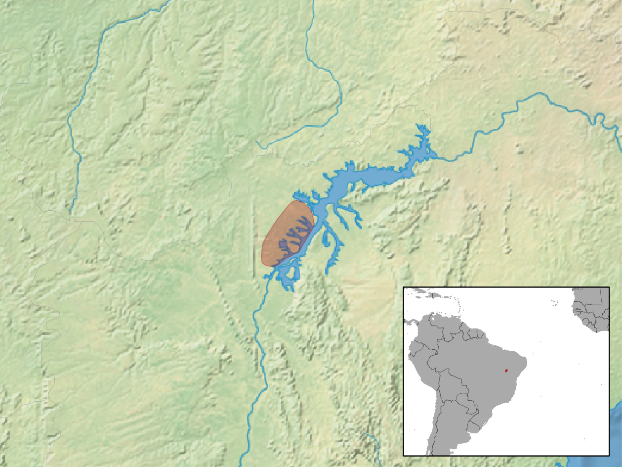 geographic distribution of Trinomys yonenagae